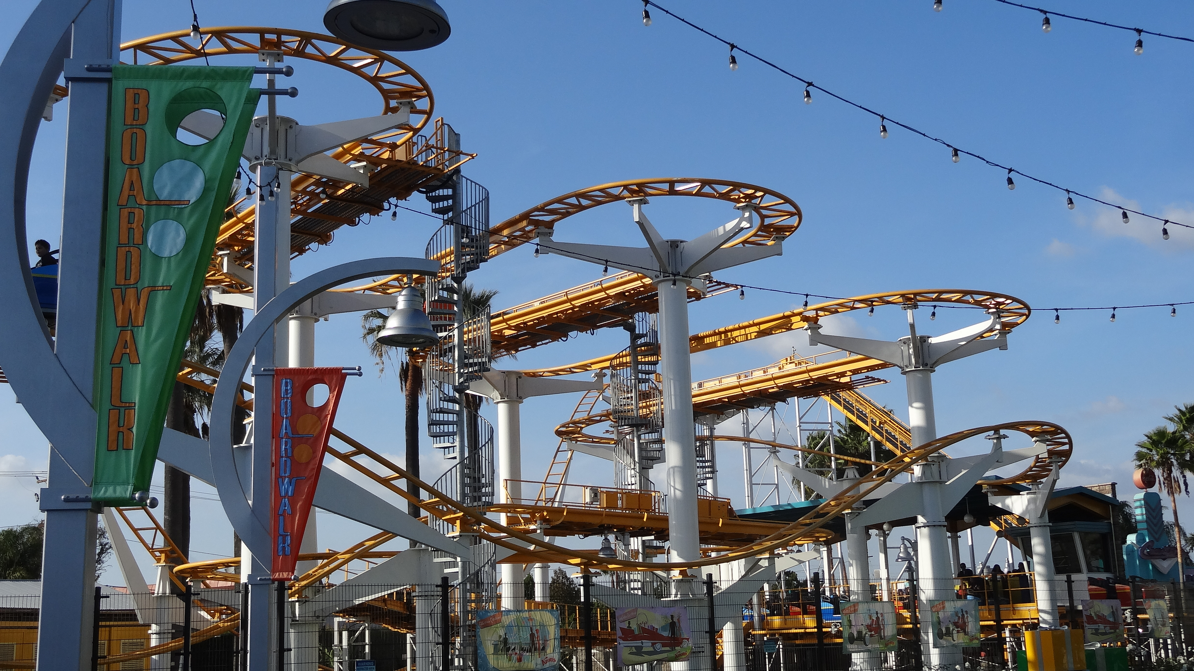 The boardwalk expansion features 3 new rides: Coast Rider, Surfside Gilders and Pacific Scrambler.